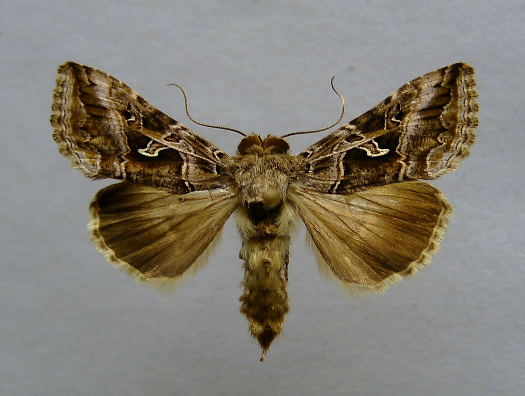 Cornutiplusia circumflexa, Tenerife, Spain